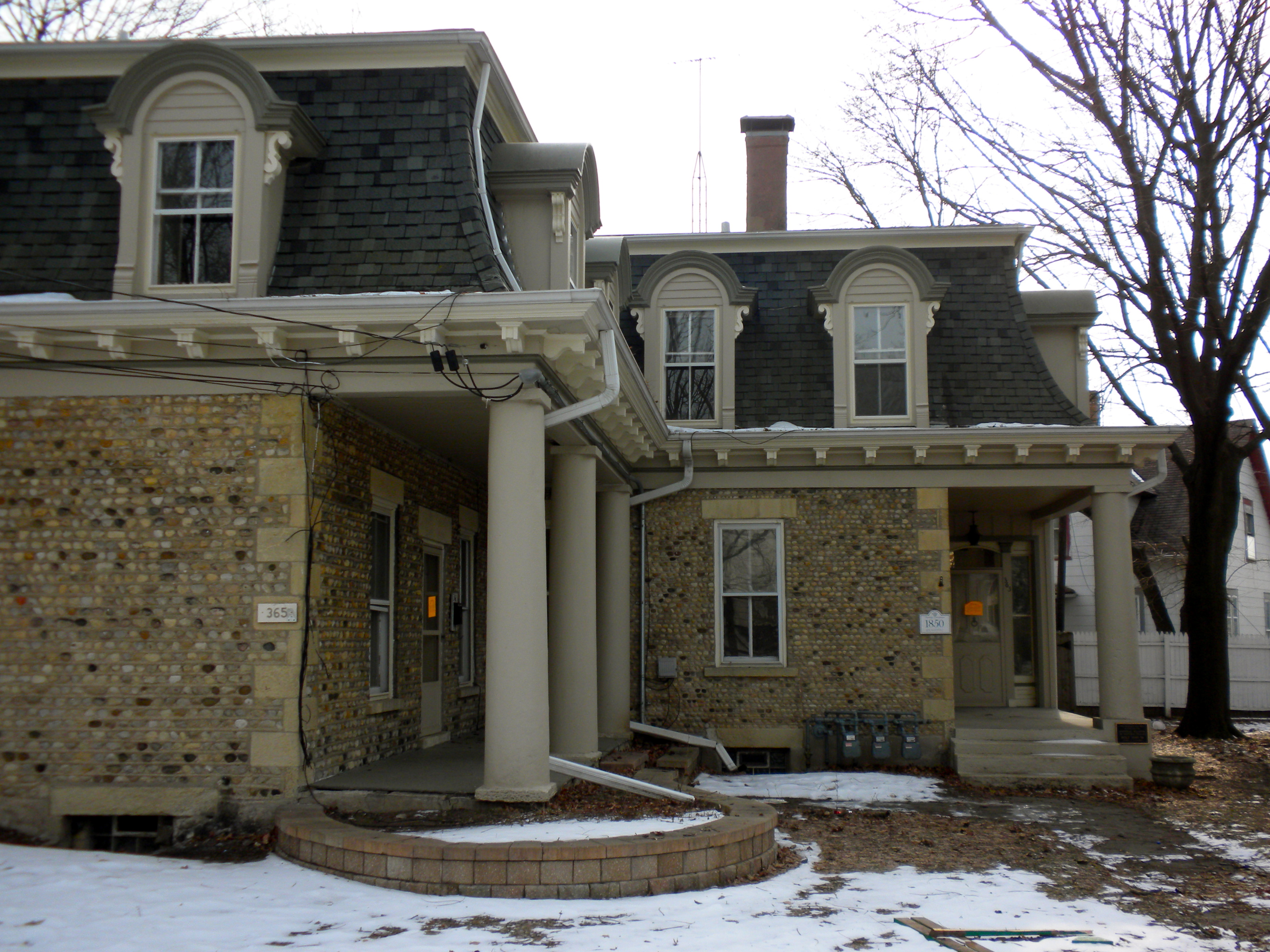 Gifford-Davidson House on the NRHP since May 31, 1980 , at 363-365 Prairie St., Elgin, Illinois. House of founder of Elgin. In Kane County